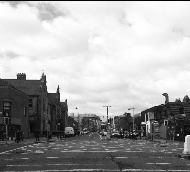 This is a photograph of Pearse Street in November 2018. On the left hand side you can see St. Andrews Resource Center which was once a national school.